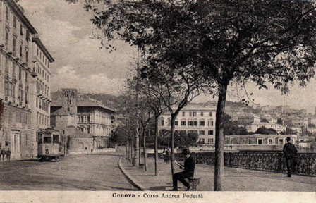 Genova, corso Podestà with tramway